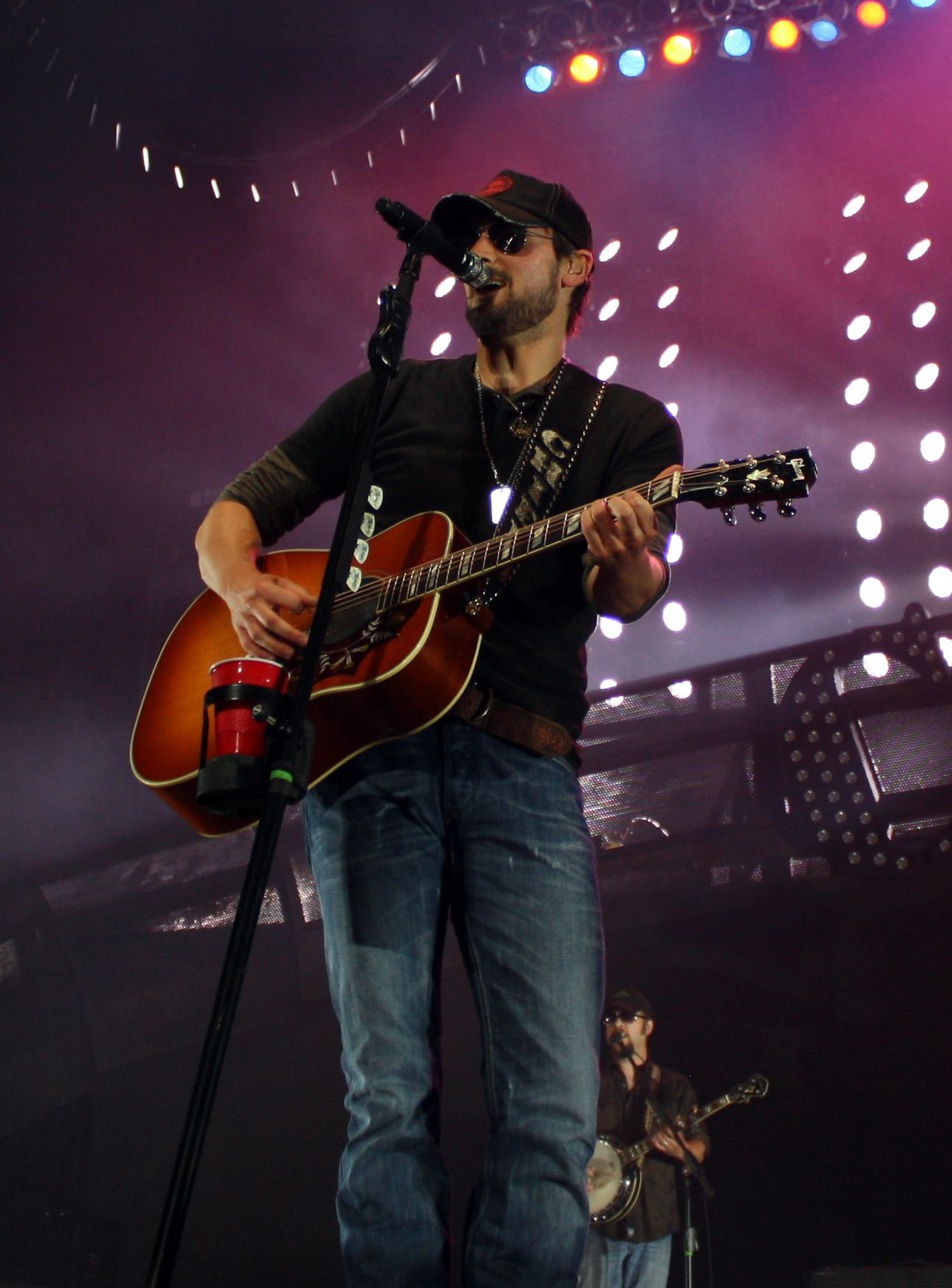 Eric Church performing live at GNA's Countryfest at the Times Union Center, Albany, New York, July 7, 2012